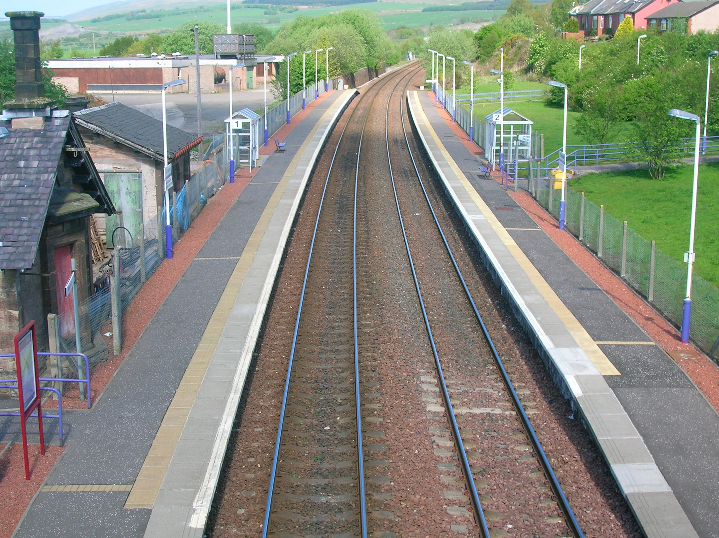 Sanquhar station looking towards Kirkconnel. May 2007. Glasgow - Dumfries - Carlisle line. Rosser 14:48, 4 May 2007 (UTC)